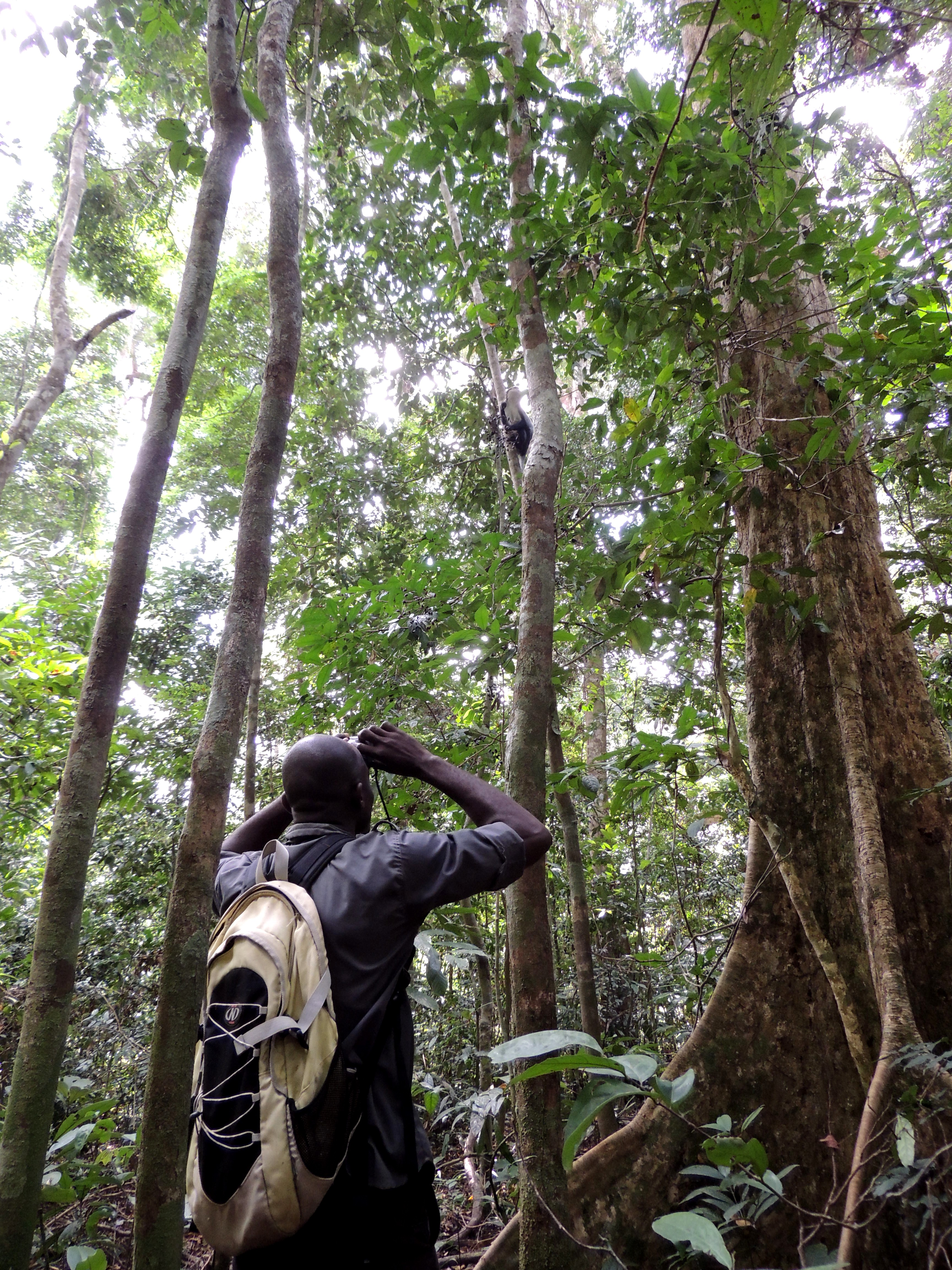 Research assistant in tropical forest, working on Primates. This is an image of "African people at work" from Ivory Coast